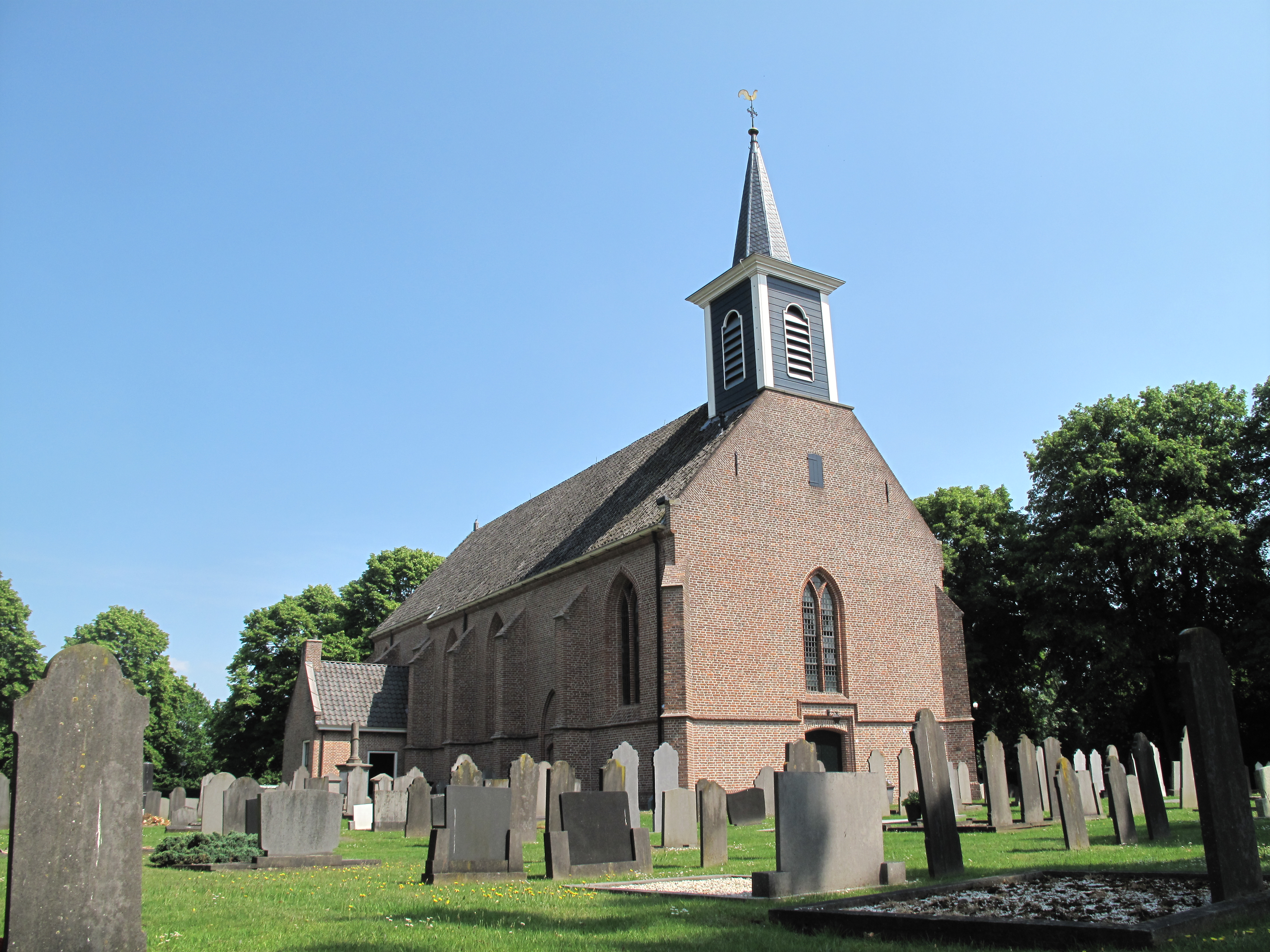 Steenwijkerwold, reformed church